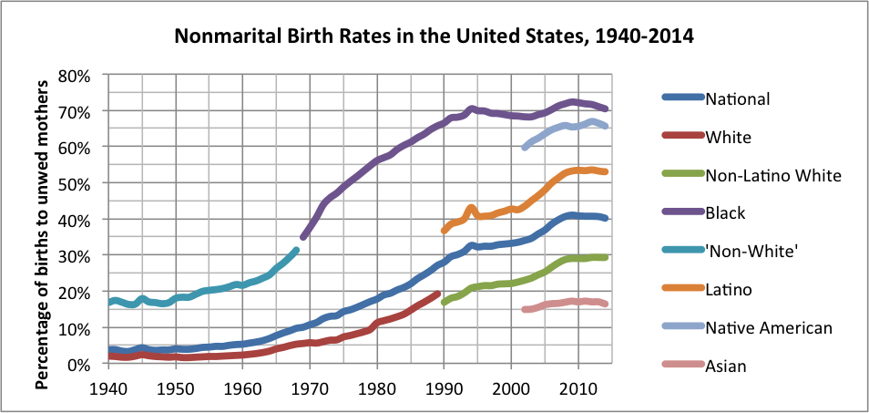 Data from Centers for Disease Control and Prevention, National Vital Statistics System Reports. Vital Statistics Rates in the United States 1940-1960 (Pg. 185), Nonmarital Childbearing in the United States, 1940-99 (Pgs. 28-31), Births: Final Data 2000 (Pg. 46), Births: Final Data 2001 (Pg. 47), Births: Final Data 2002 (Pg. 57), Births: Final Data 2003 (Pg. 52), Births: Final Data 2004 (Pg. 57), Births: Final Data 2005 (Pg. 57), Births: Final Data 2006 (Pg. 54), Births: Final Data 2007 (Pg. 46), Births: Final Data 2008 (Pg. 46), Births: Final Data 2009 (Pg. 46), Births: Final Data 2010 (Pg. 45), Births: Final Data 2011 (Pg. 43), Births: Final Data 2012 (Pg. 41), Births: Final Data 2013 (Pg. 40), Births: Final Data 2014 (Pg. 7 & 41)